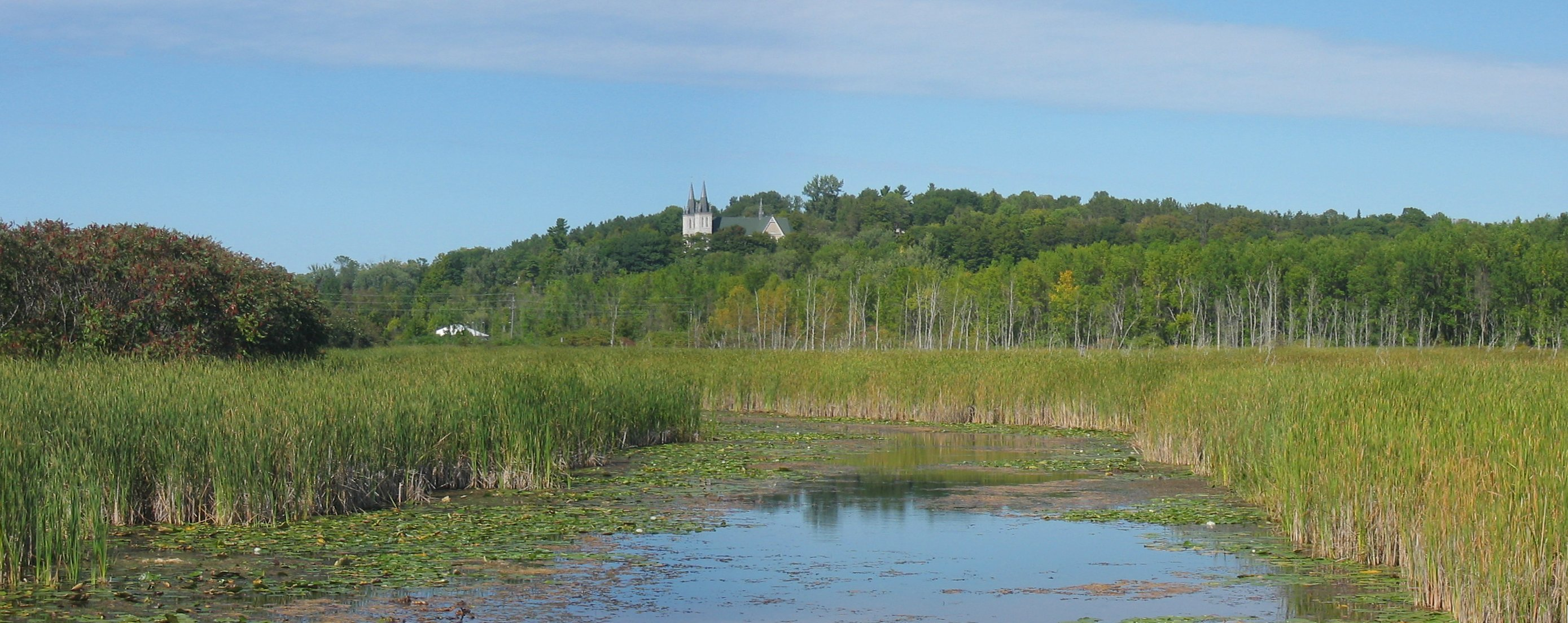 Wye Marsh. View from the bridge over the canoe channel.